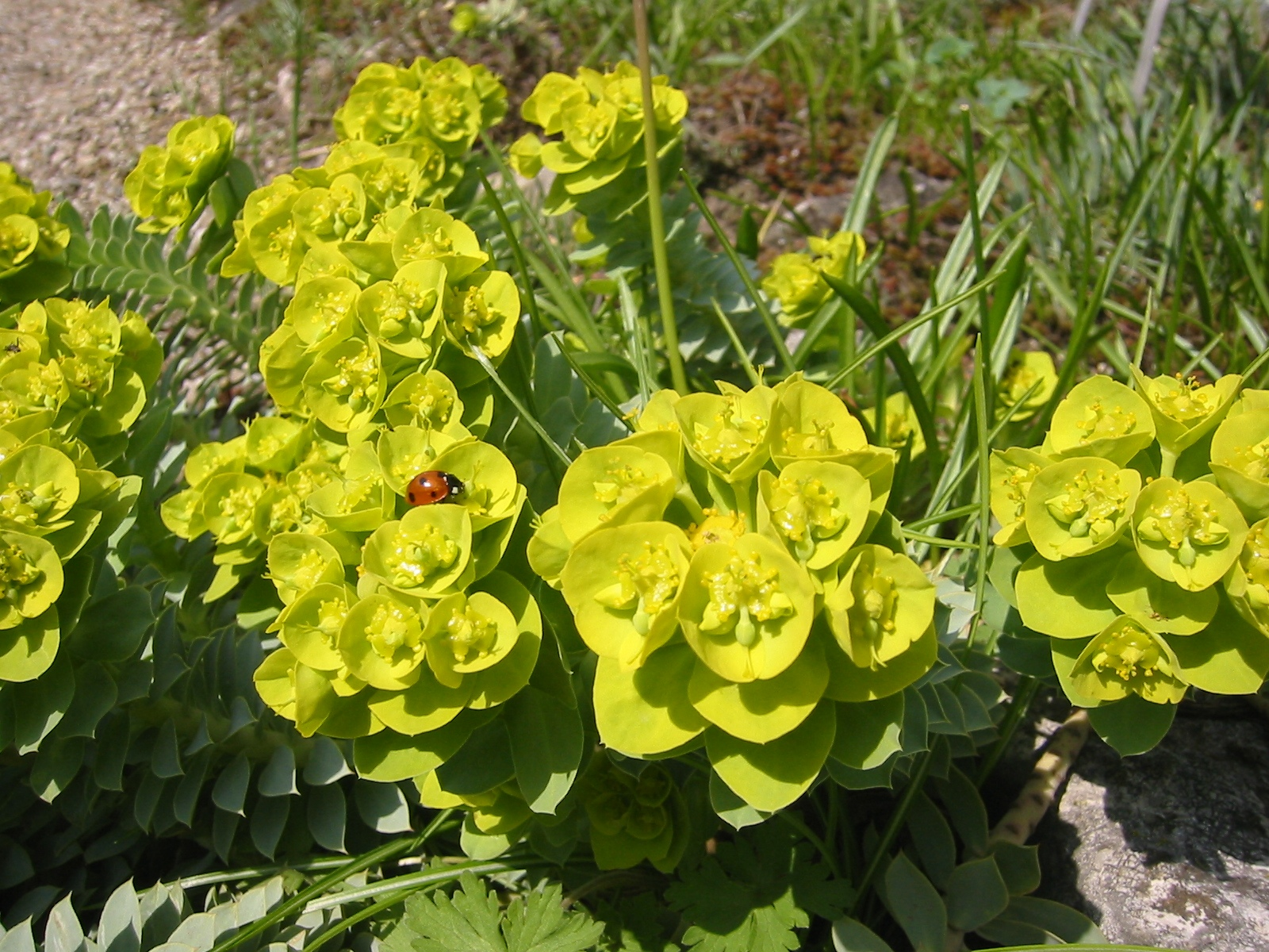 Euphorbia_myrsinites; Botanic Garden, Vienna, Austria.